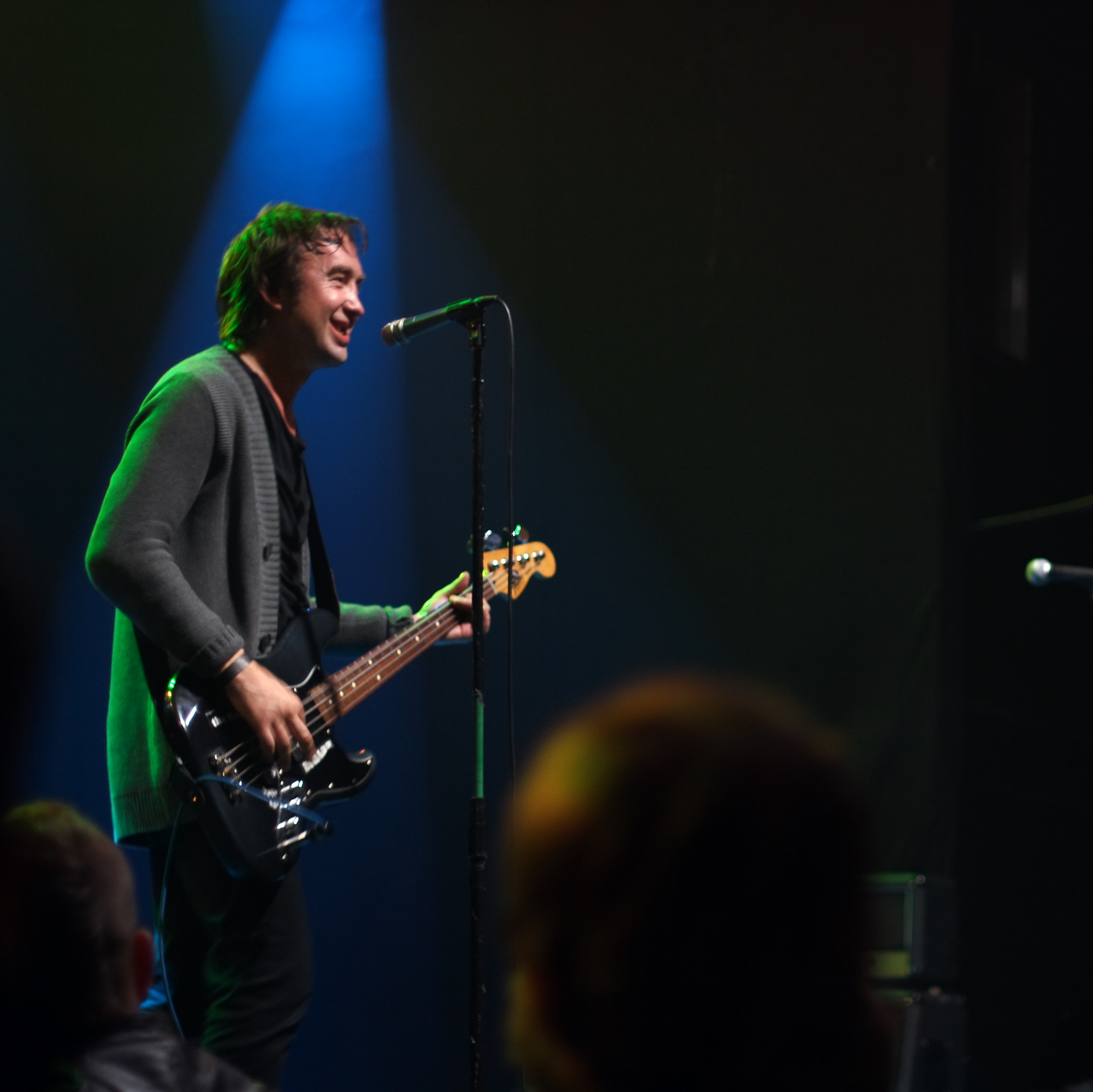 Psychoterror @ Villu 49 @ Rock Cafe, Tallinn